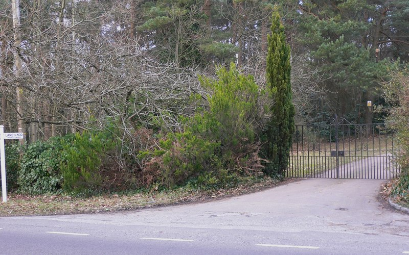 Gateway to "Land of Nod" on Grayshott Road